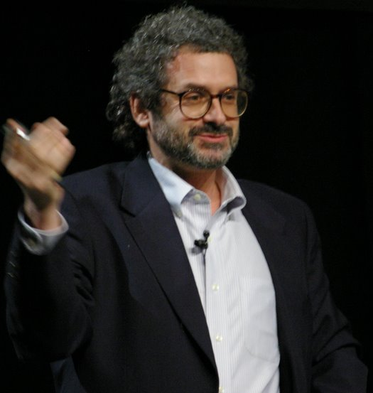 Neil Gershenfeld at The Amazing Meeting on January 19, 2007